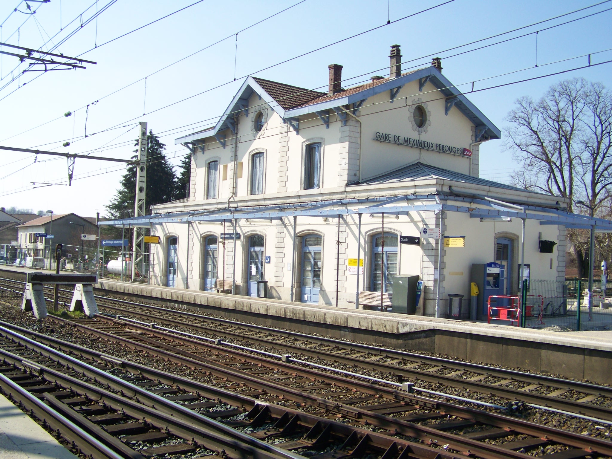 Sight on building, platforms and tracks of Meximieux-Pérouges railway station, in French department of Ain.